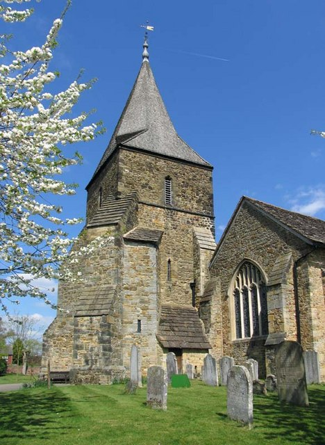 St Peter & St Paul, Edenbridge, Kent